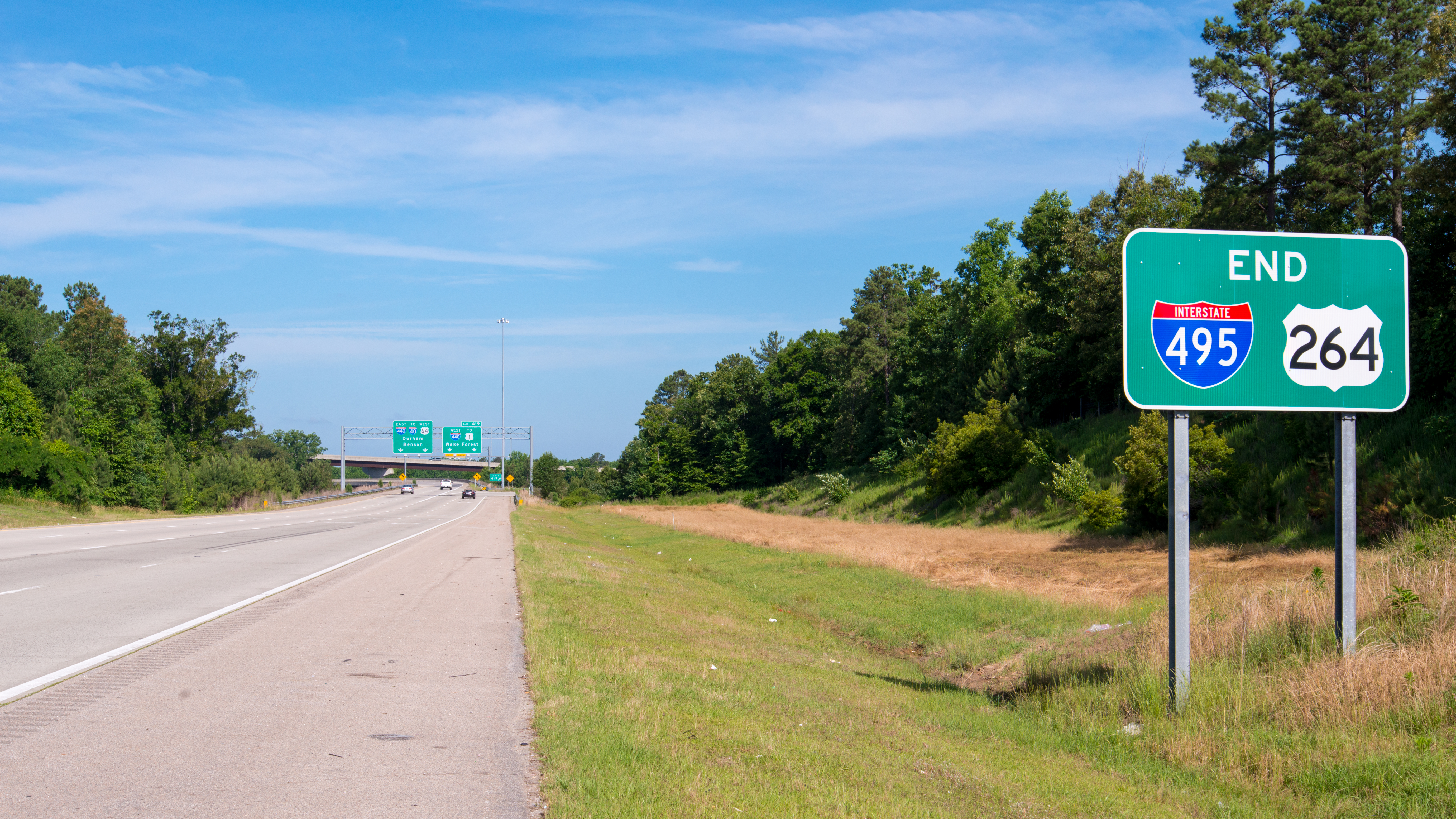 End of the line for both I-495 south and US 264 west in Raleigh, North Carolina. In the distance is the exit 419 interchange with I-440, with continuation of US 64 west and to both I-40 and US 1.